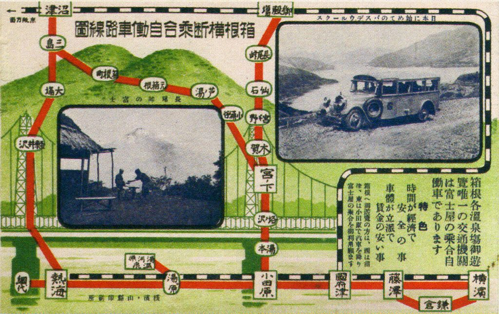 Fujiya Motors' Route Map